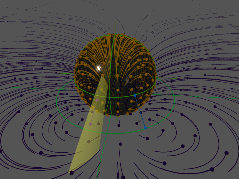 Mobius transformation, showing stereographic projection between plane and sphere. Generated with POVRAY. Povray file created with a java program. Donated to the Public Domain.